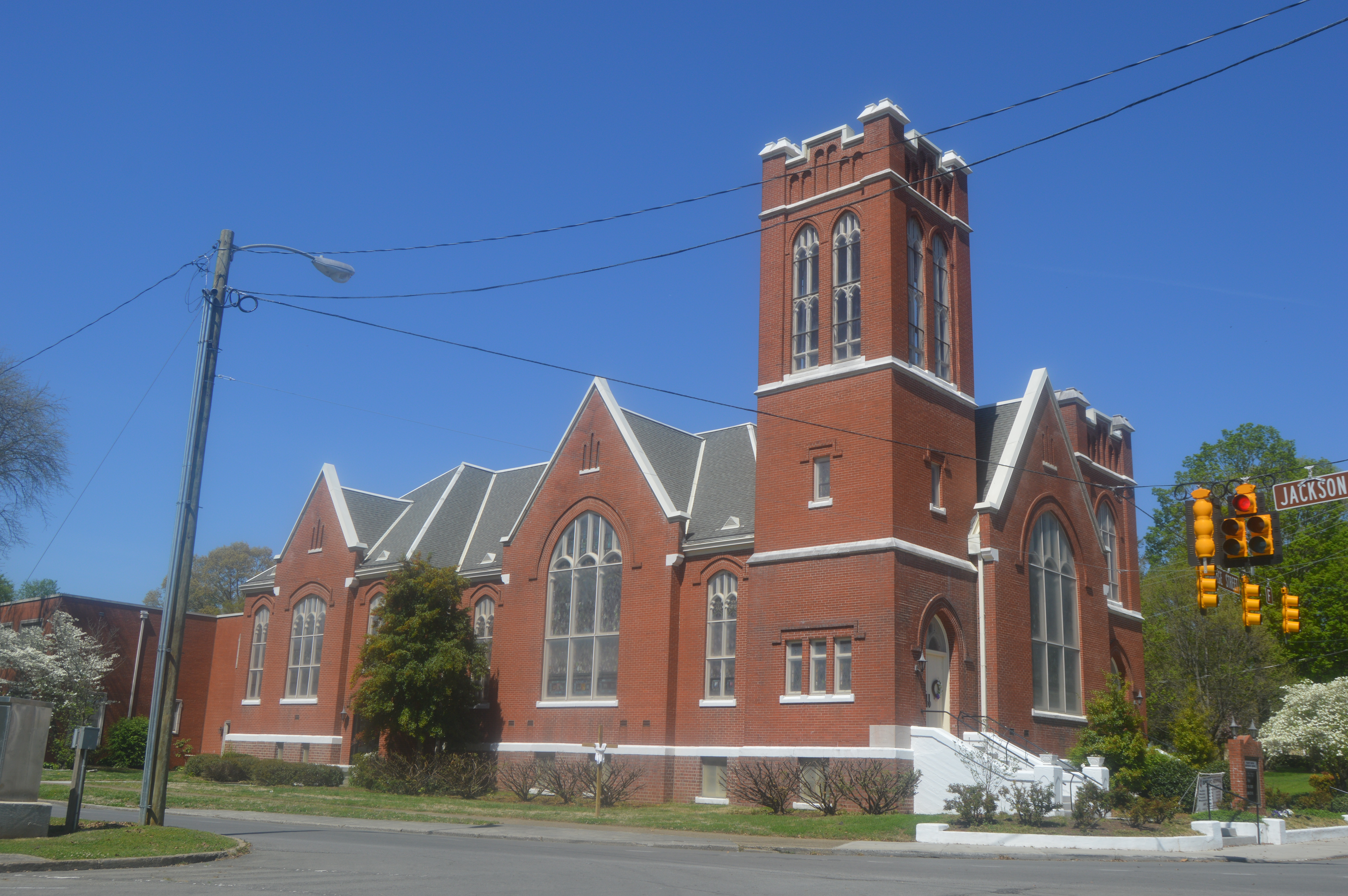 Front and western side of Trinity United Methodist Church, located at 100 E. College Street in Athens, Tennessee, United States. Built in 1910, it is listed on the National Register of Historic Places.